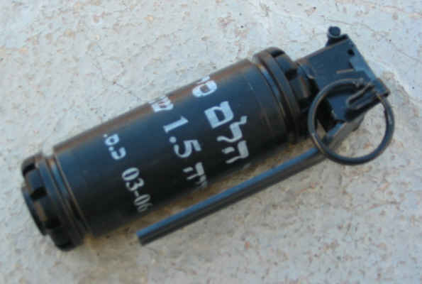 IDF stun grenade